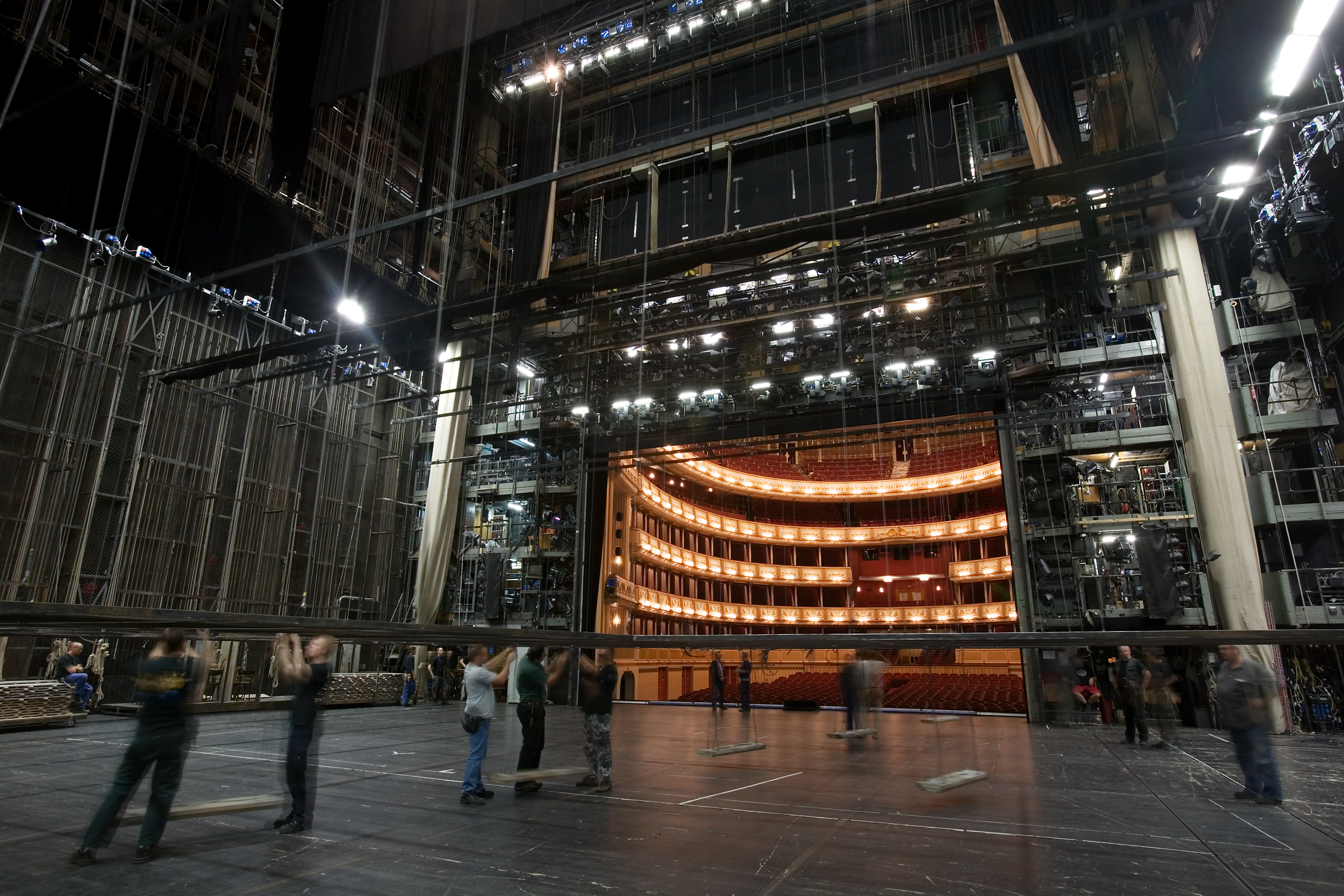 Vienna Opera Backstage, Austria